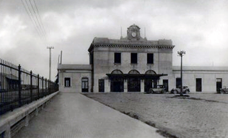 Bahia Blanca Station. Rosario Puerto Belgrano's Railway. It later became the main building in the Old Bus Terminal until 2008 that The New Bus Terminal was built.